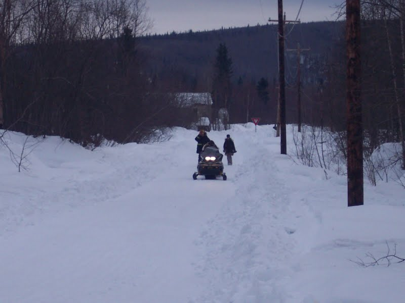 View of Sleetmute, Alaska in the winter